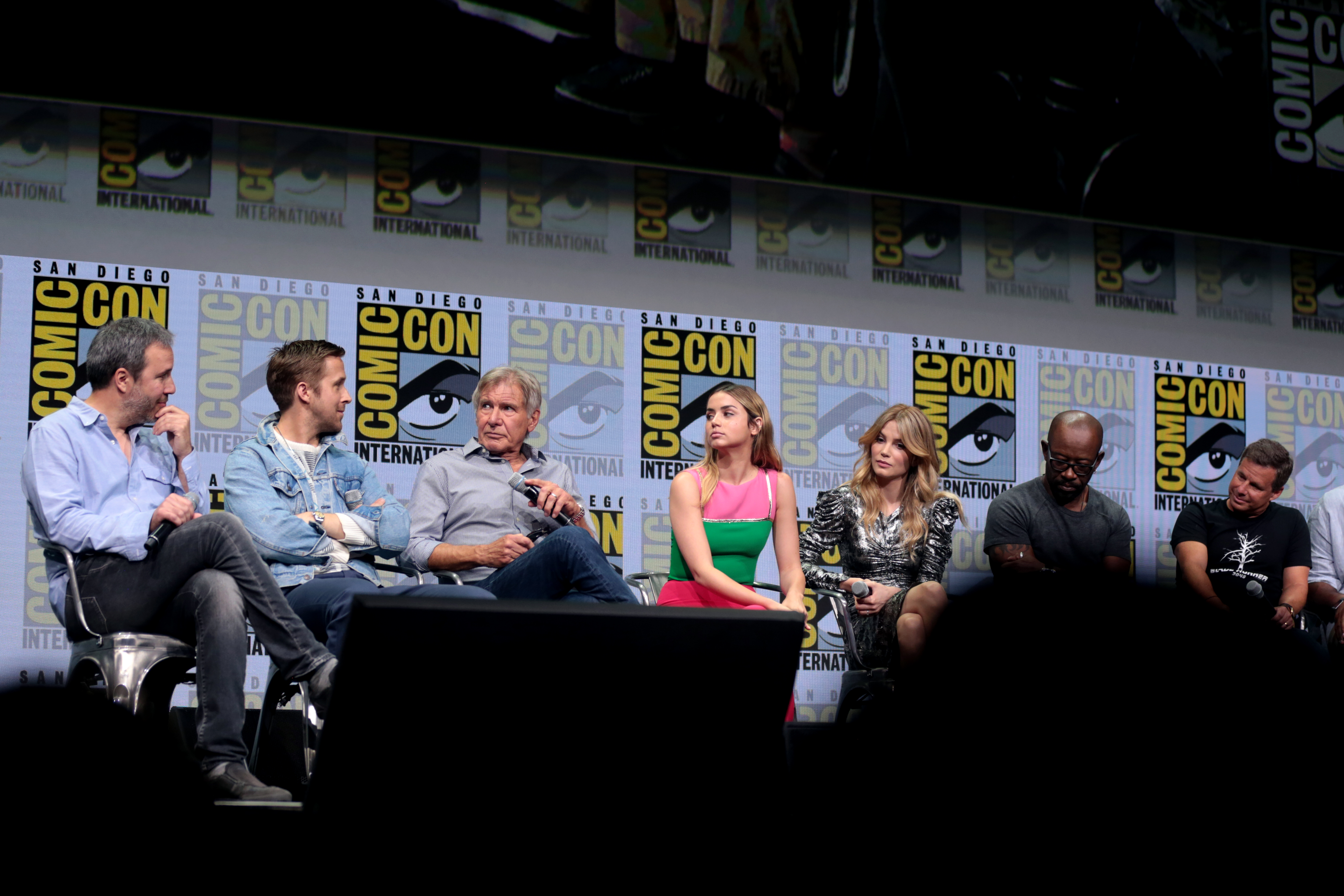 Denis Villeneuve, Ryan Gosling, Harrison Ford, Ana de Armas, Sylvia Hoeks, Lennie James and Andrew A. Kosove speaking at the 2017 San Diego Comic Con International, for "Blade Runner 2049", at the San Diego Convention Center in San Diego, California.